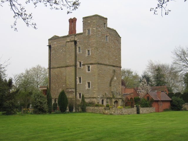 Claverdon Leys. The Leylands, a peculiar tower of a house.